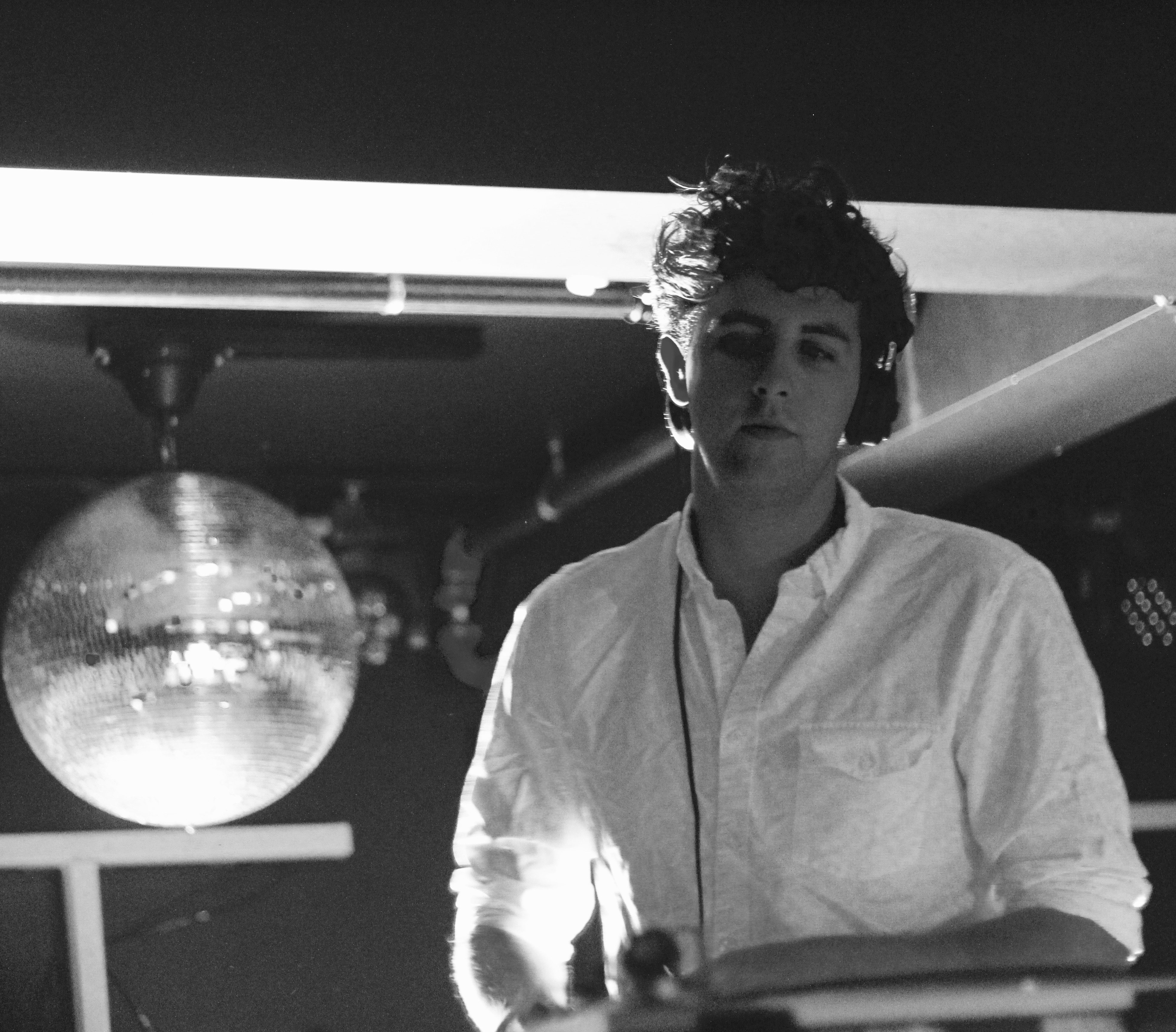 Jamie xx performing at The 1up - Colfax in Denver, Colorado on July 21, 2015